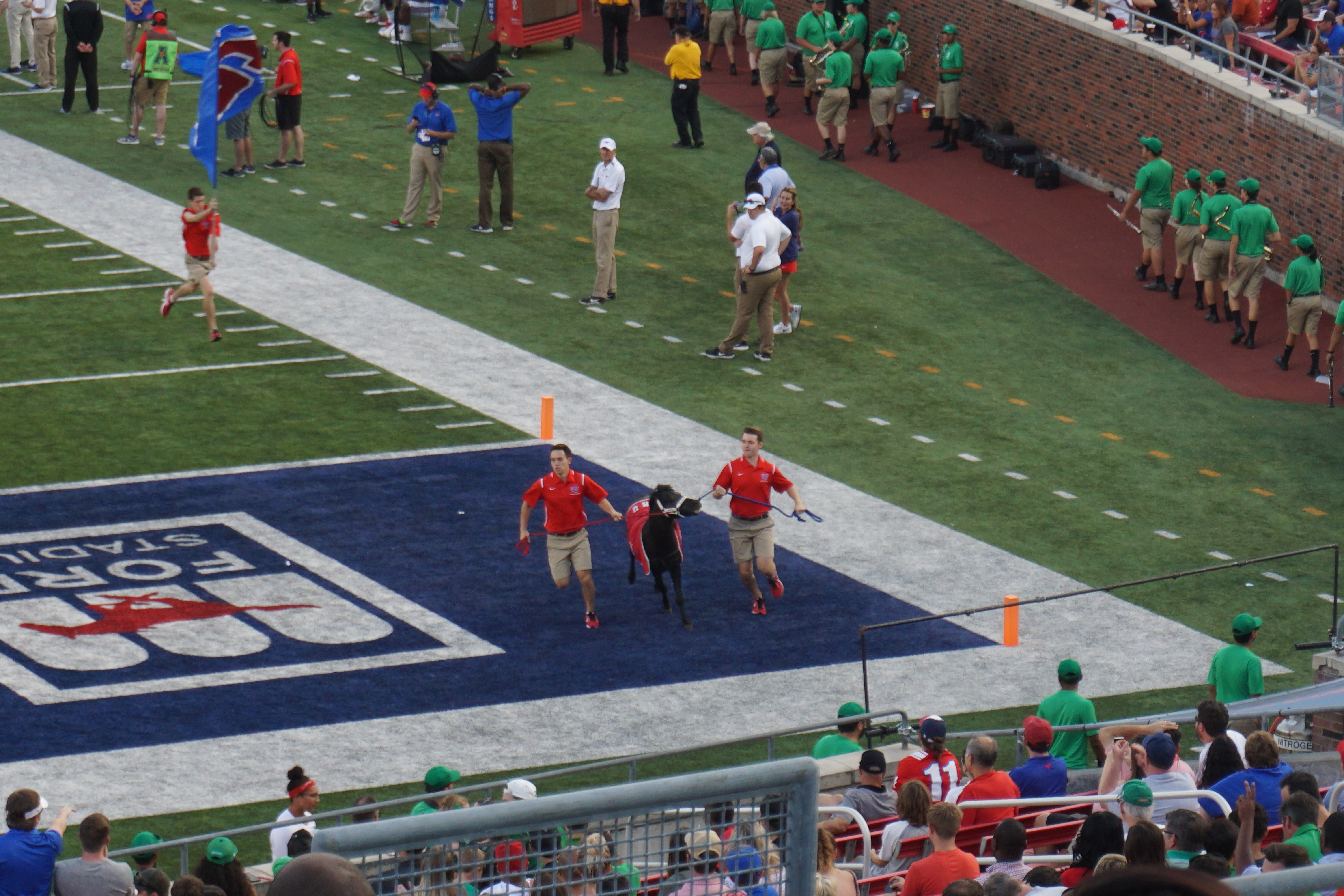 Peruna during the North Texas Mean Green vs. Southern Methodist Mustangs football game at Gerald J. Ford Stadium in University Park, Texas (United States). Southern Methodist won 54–32.